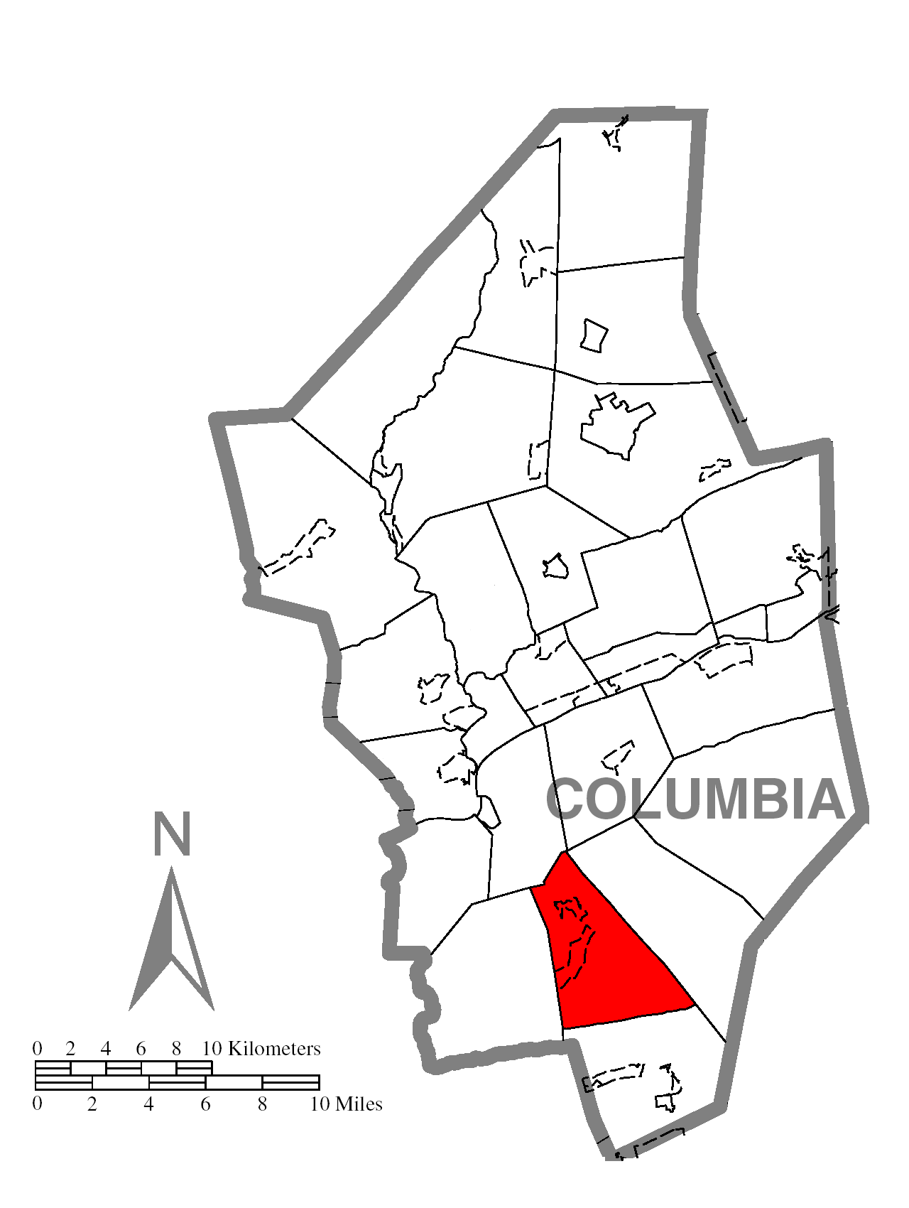 A map of Columbia County showing Locust Township, Pennsylvania (alternate) highlighted on the map.